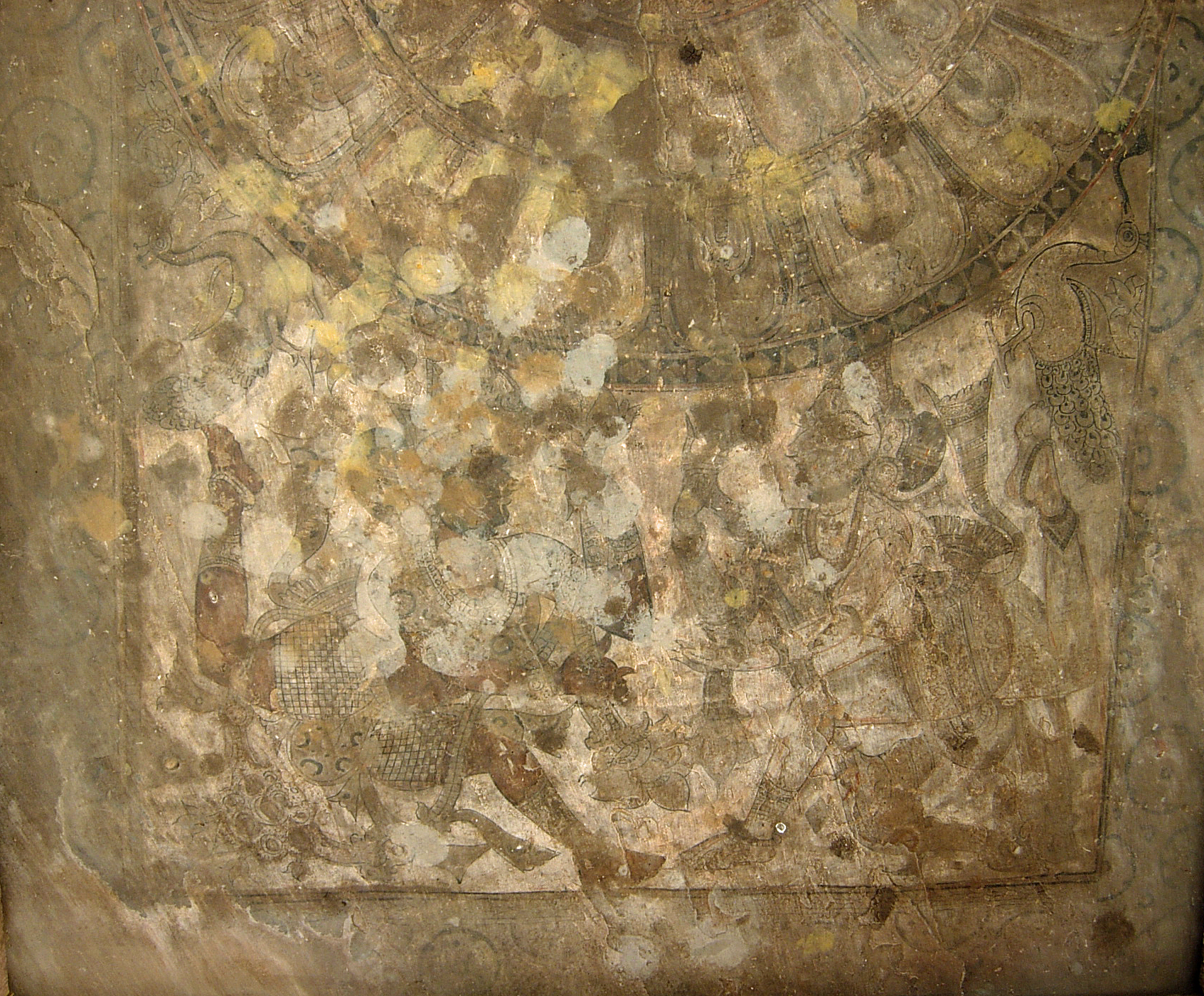 Painting in the ceiling of the partly ruined mandapa at Madanpur, Lalitpur district, U.P., India.